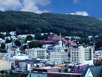 View of Pottsville, Pennsylvania.